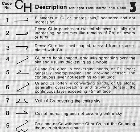 High cloud symbols used within station models